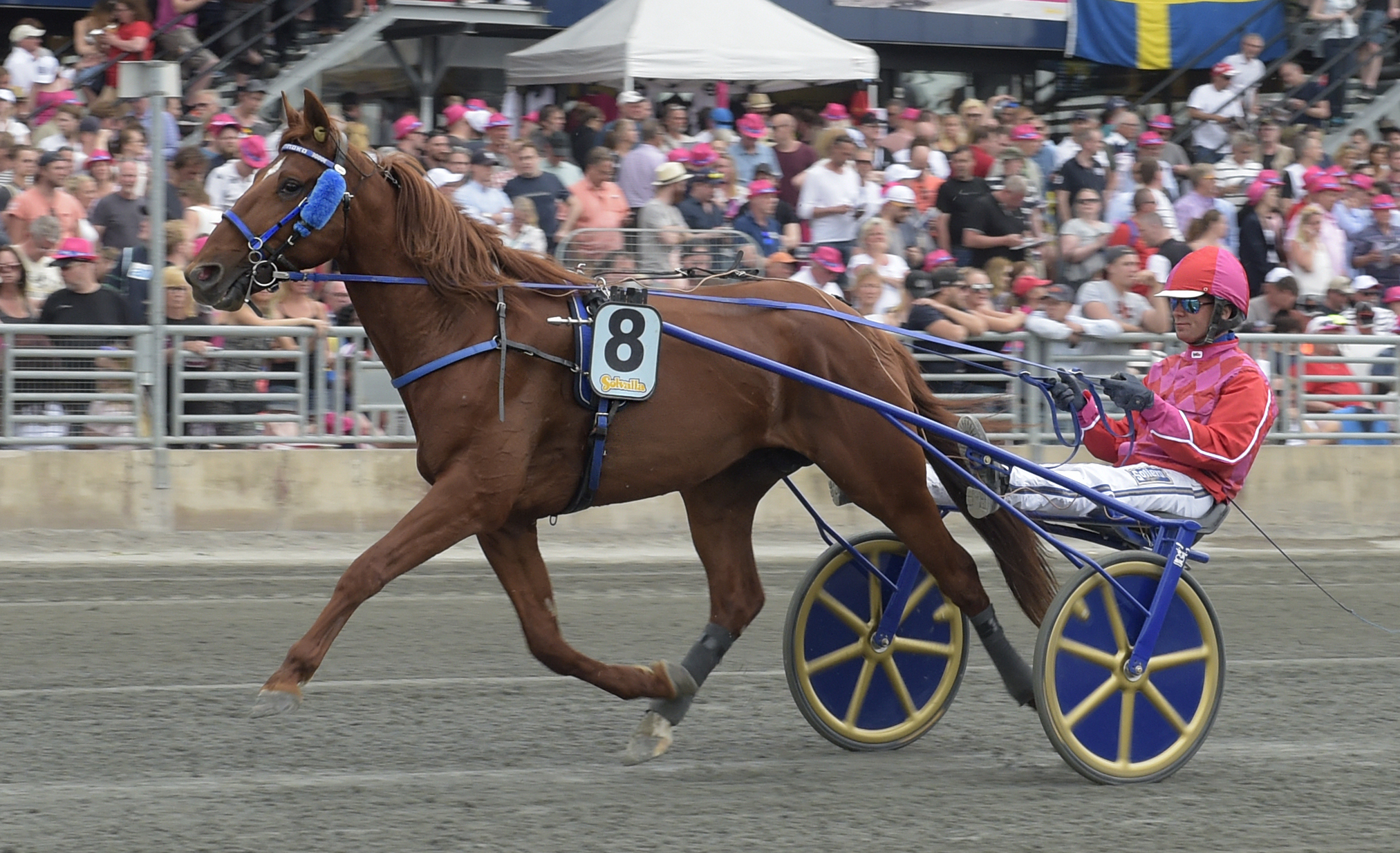 Dreammoko and driver Björn Goop at Solvalla in May 2017.